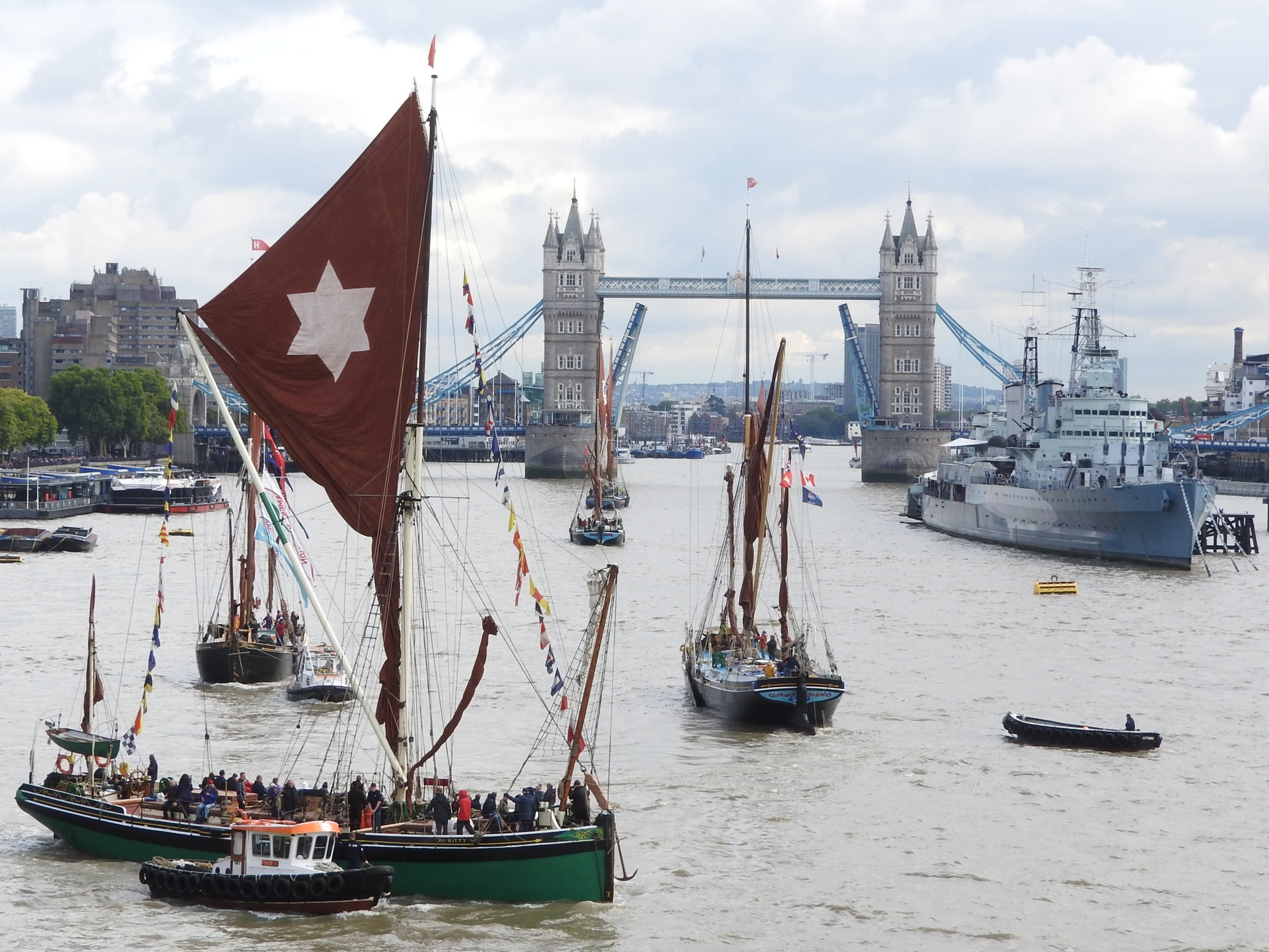 The Thames barge parade 2017. 16 September 2017. Ten barges sailed from West India Docks to Tower Bridge. At noon (BST), Tower Bridge opened and the barges paraded in line into the Pool of London, where they held position against the ebbing tide until 12.45 when the bridge reopened and barges turned and made out to South Quays. Sailing back under the bridge